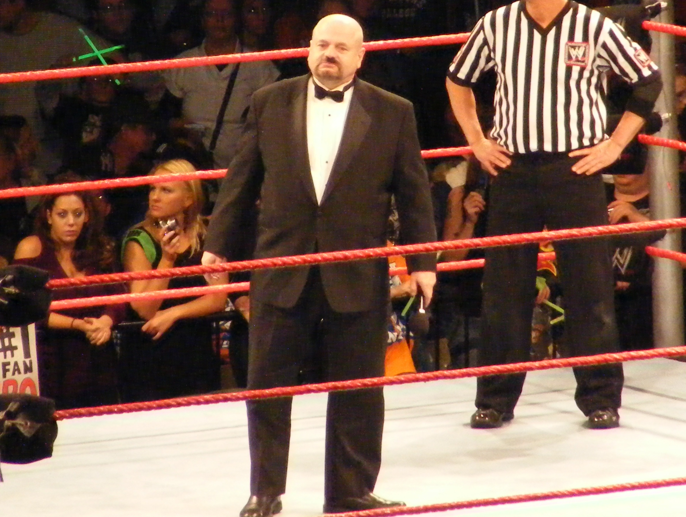 Professional wrestling announcer Howard Finkel (front) and a referee in the ring at a WWE show in Syracuse on December 30, 2009.